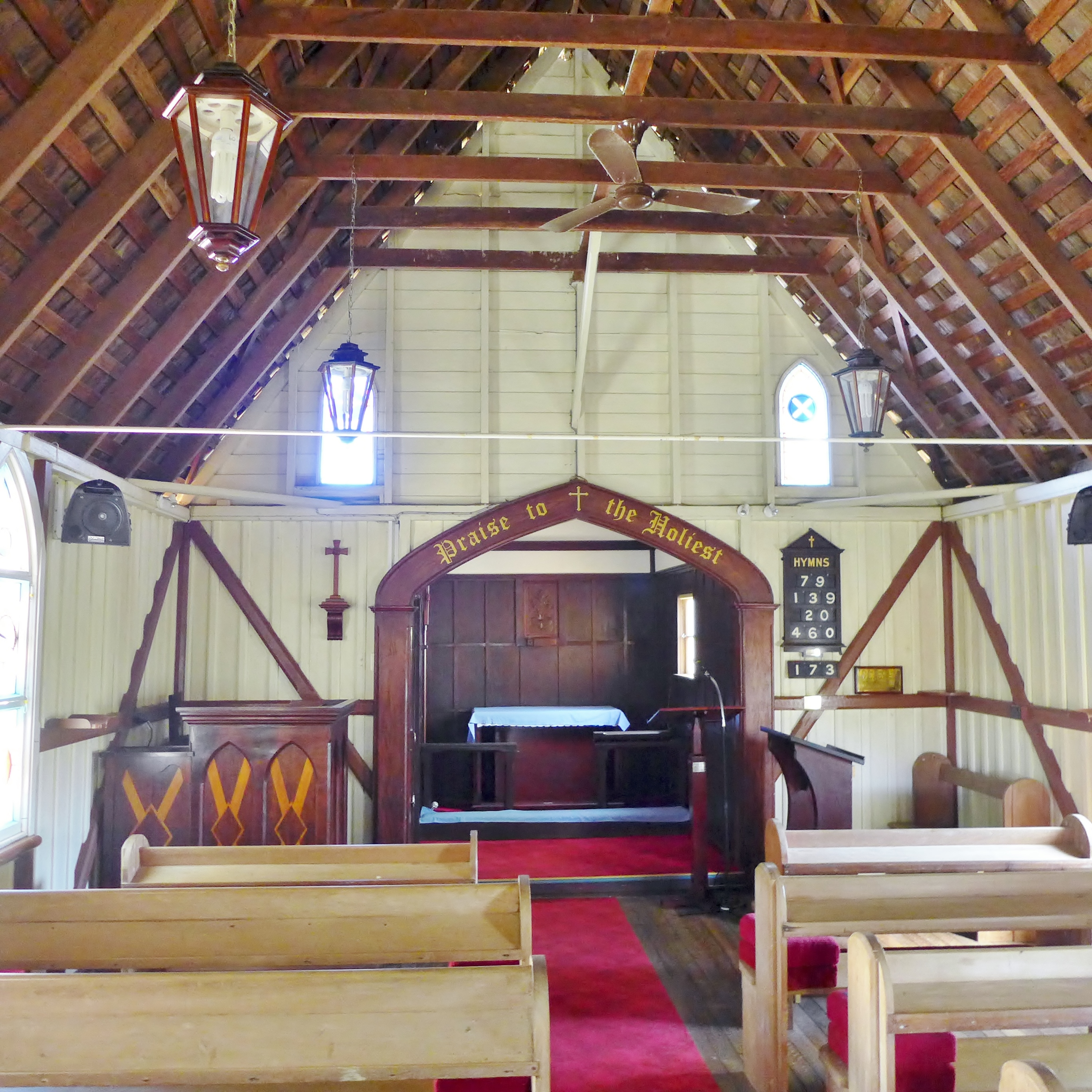 View of the interior of the St Andrew's Anglican Church, 209 Wellington Street, Ormiston, Queensland